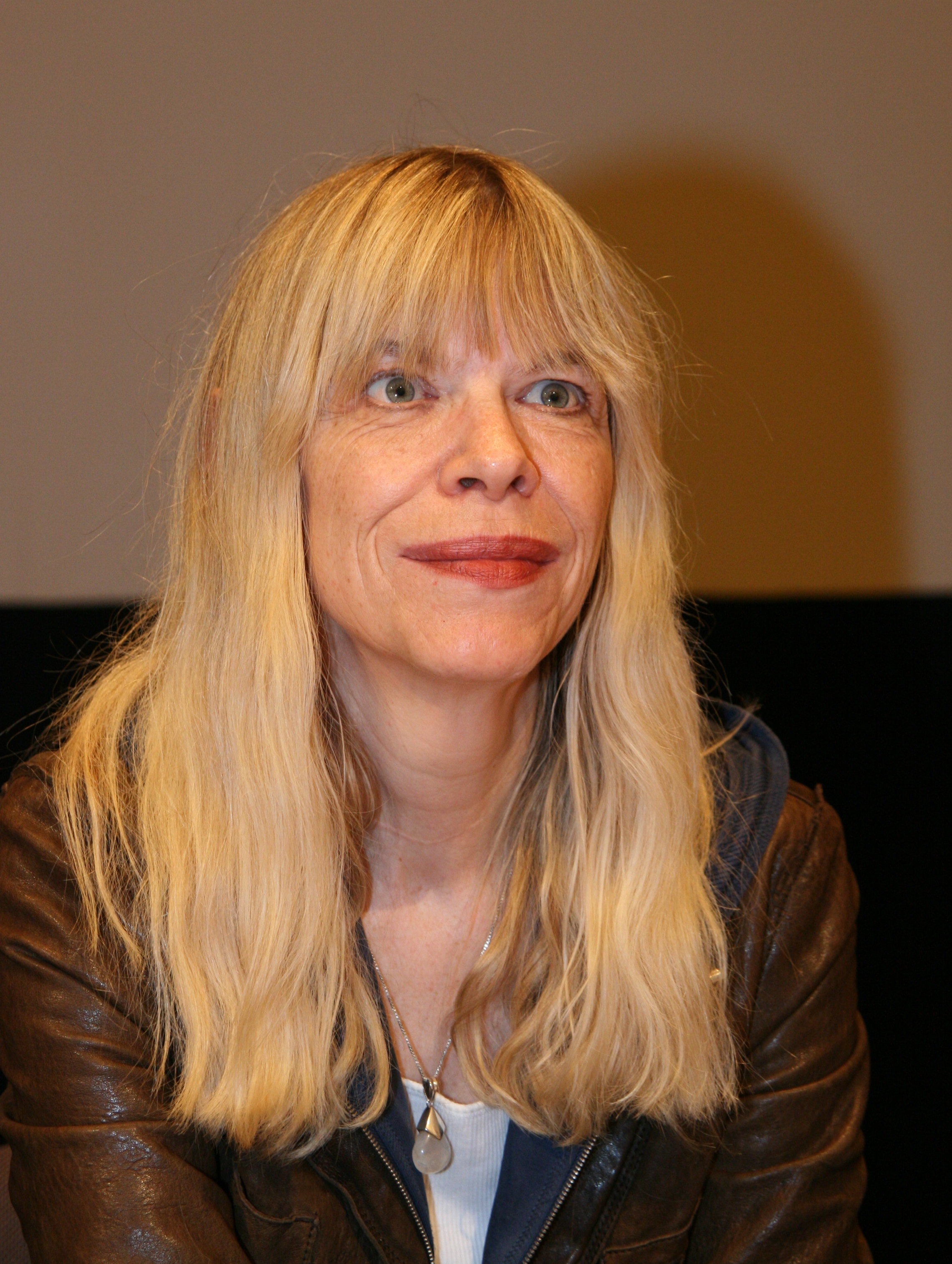 Gabriele Gillen at the "Berlin 08" festival